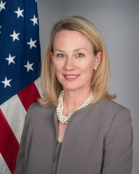 Alice Wells official photo